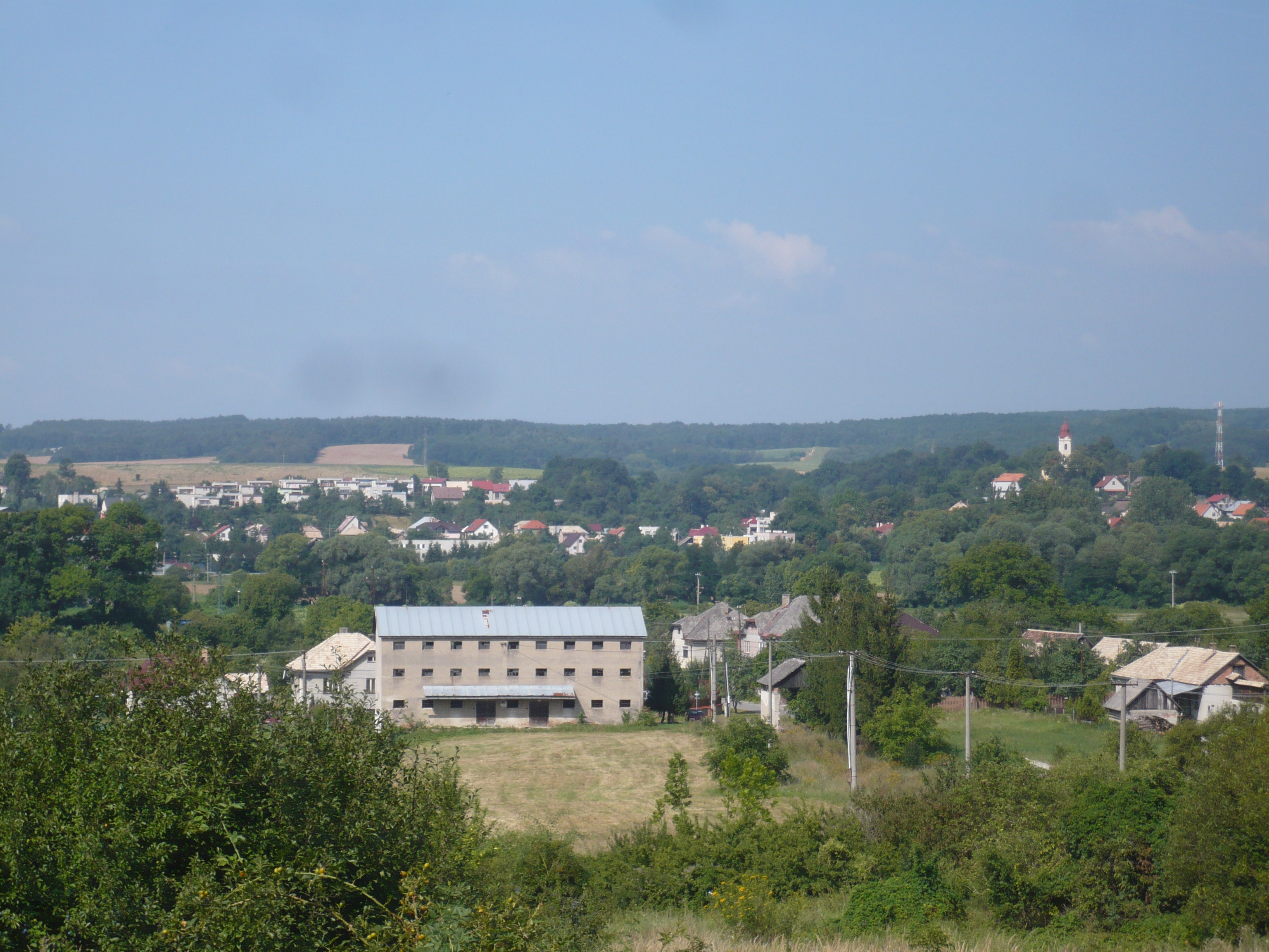 View on Hrachovo Pohľad na Hrachovo